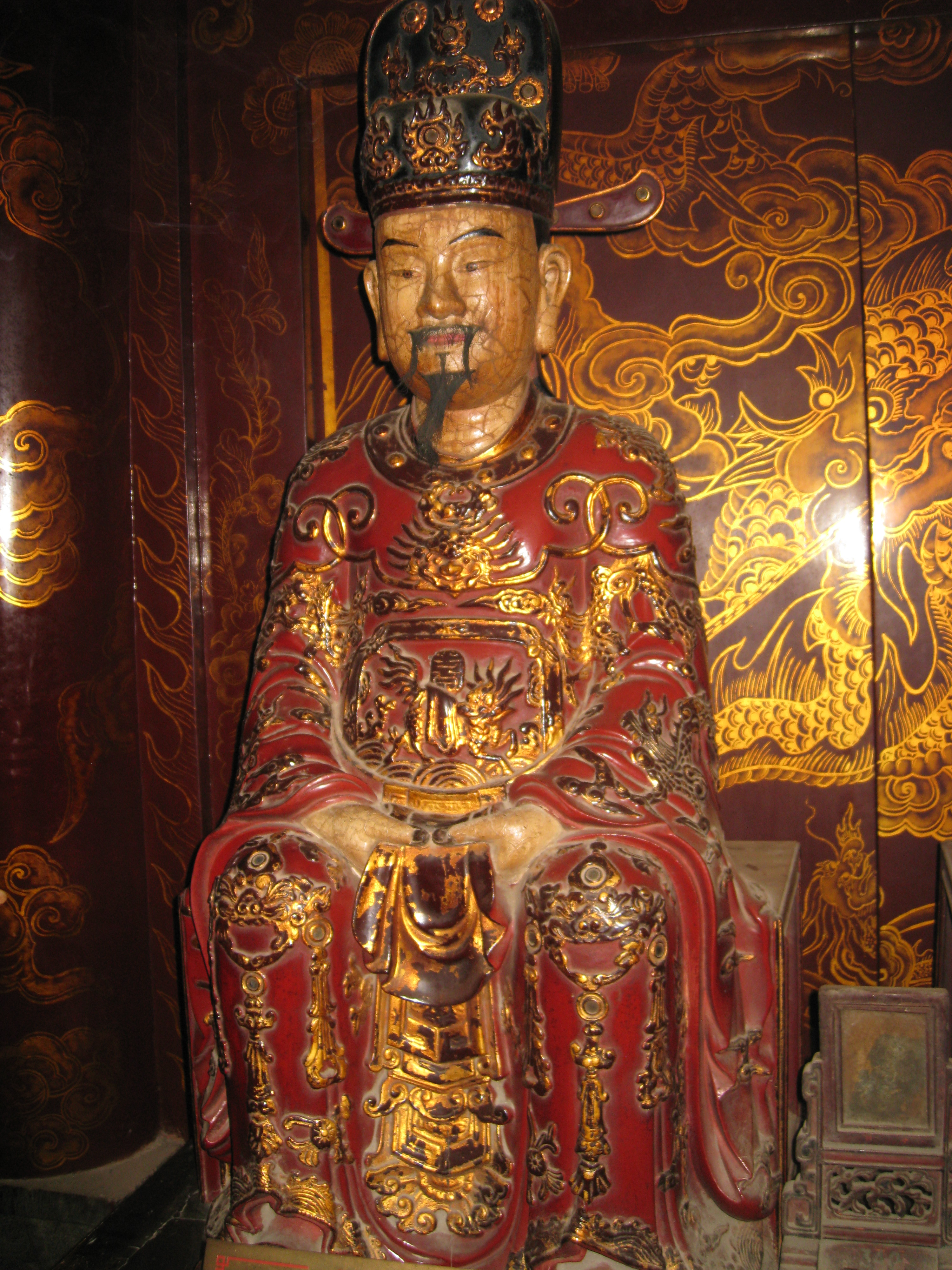 Statue of Đinh Hạng Lang at Đinh Tiên Hoàng Temple (Hoa Lư).